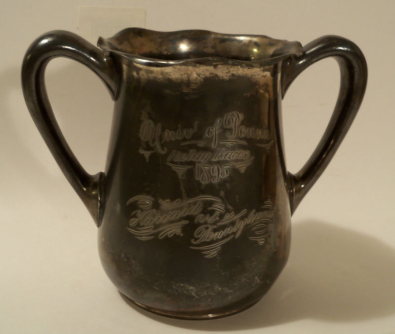 This is the first trophy presented to Harvard from the 1895 Penn Relays.